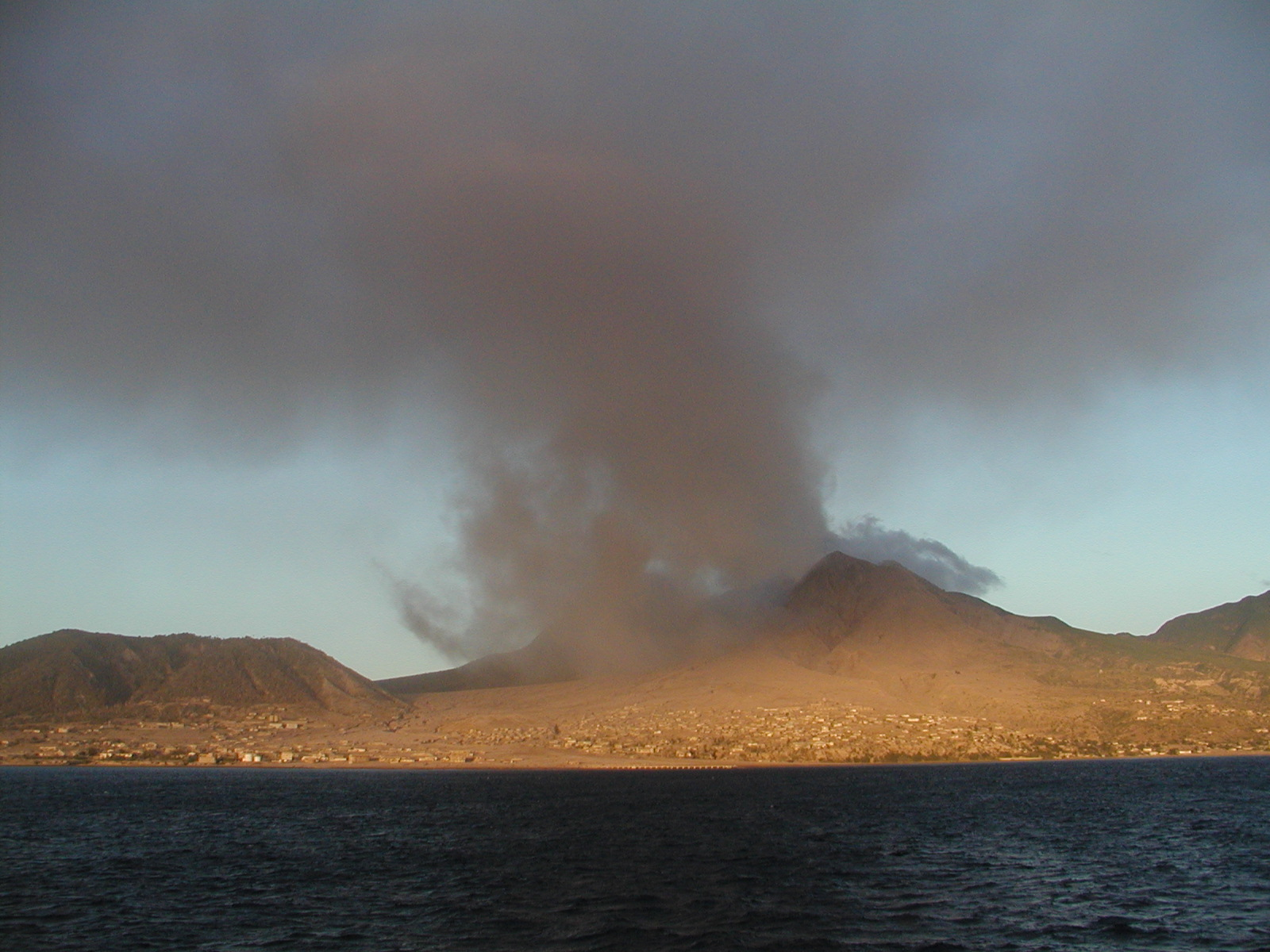 Plymouth, Montserrat and the devastation caused by the Soufrière Hills volcano on 25 June, 1997.